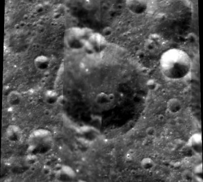 Stoletov lunar crater - Clementine image